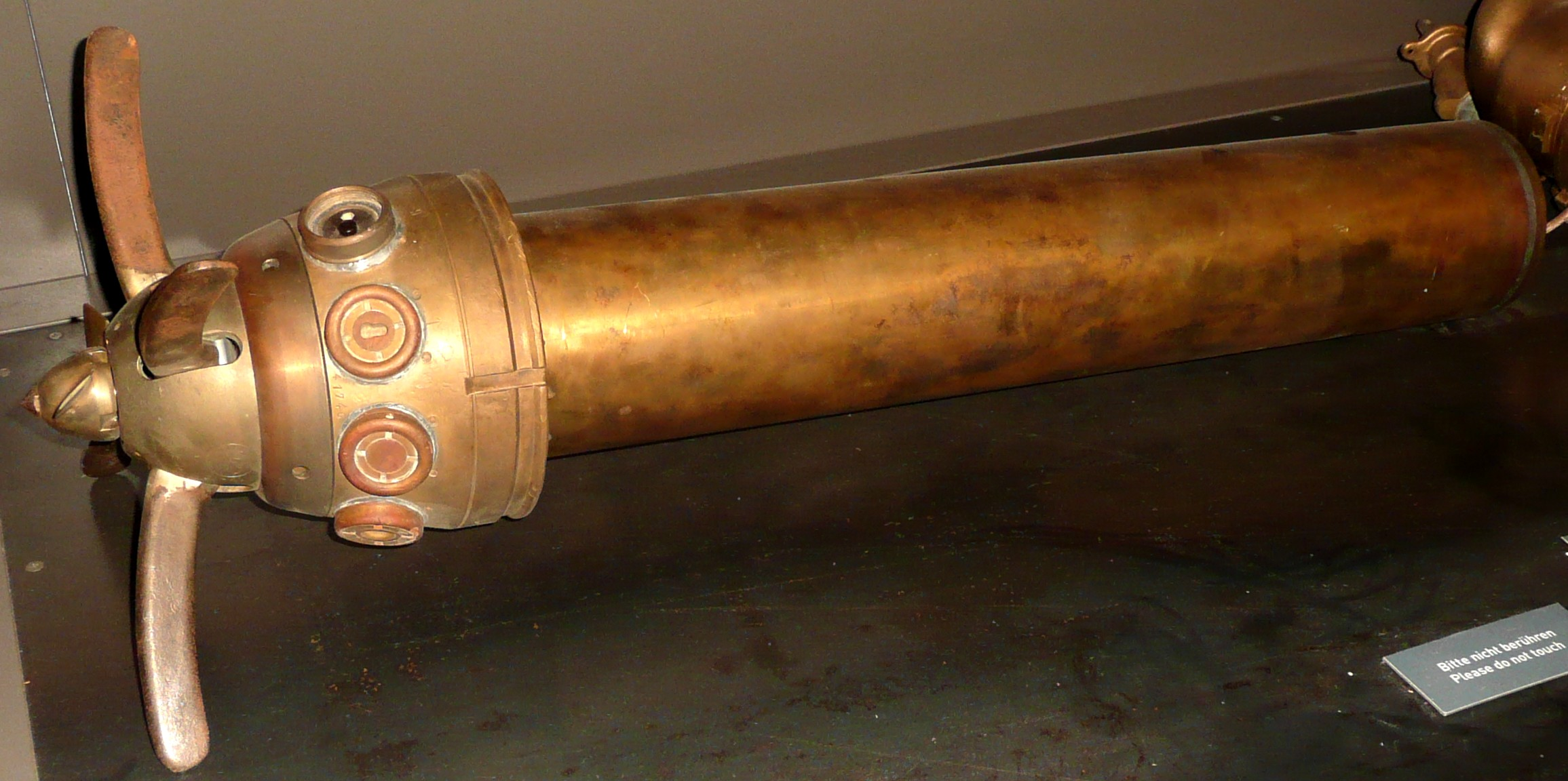 Contact fuze of a german G7a torpedo. Exposed in International Maritime Museum Hamburg.